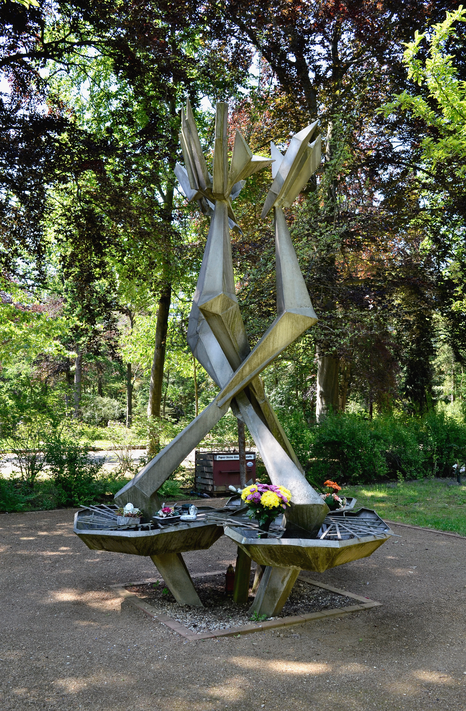 Sculpture (name unknown) near the mortuary of Südfriedhof in Cottbus-Madlow.Freedom of panorama applies.